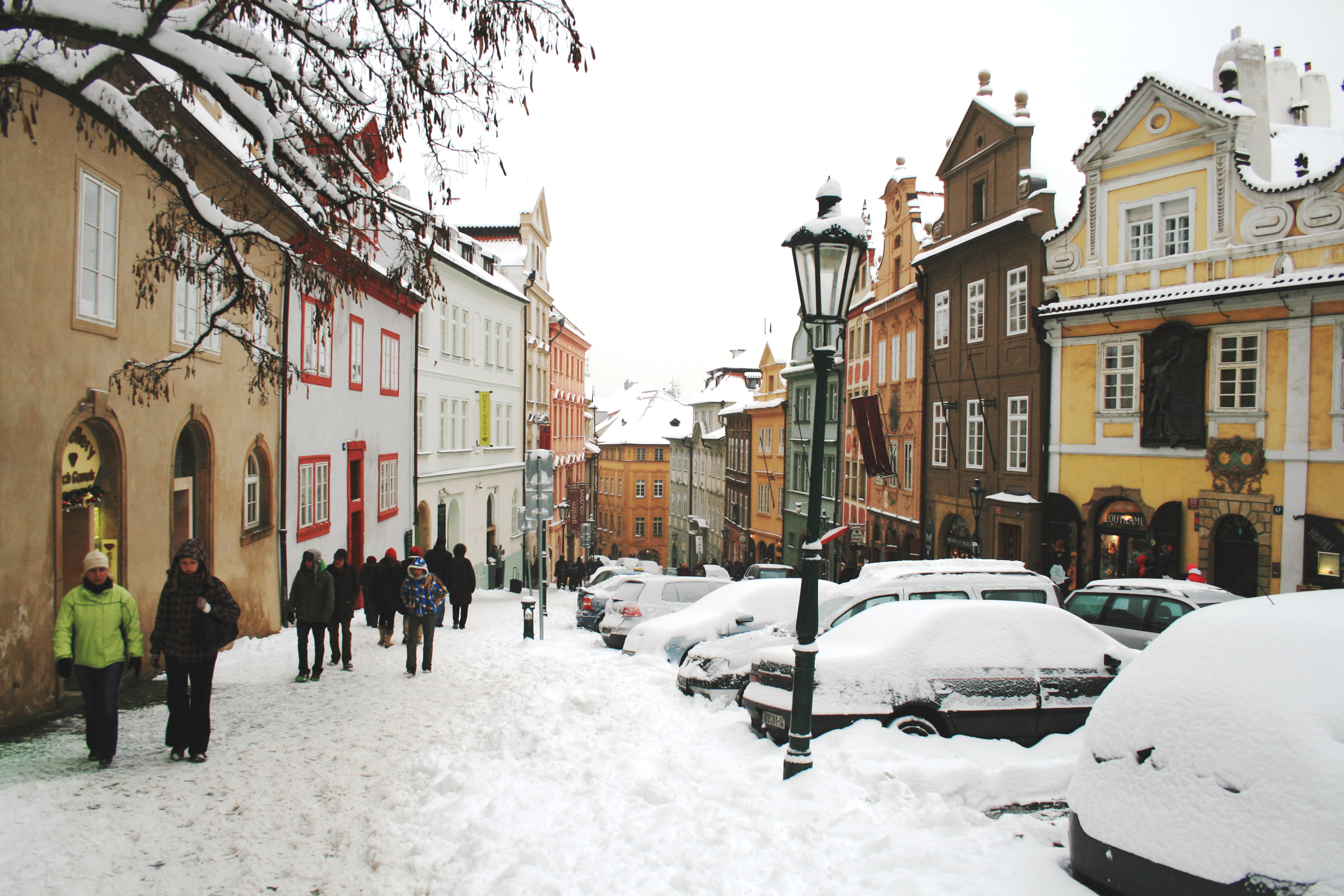 View on Nerudova street in Malá Strana under snow, winter 2010, Czech Republic Česky: Pohled na zasněženou Nerudovu ulici na Malé Straně, Praha, zima 2010